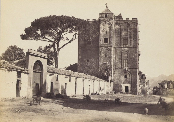 Giorgio Sommer (1834-1914), "The Zisa castle. Palermo". 1880s 2006.